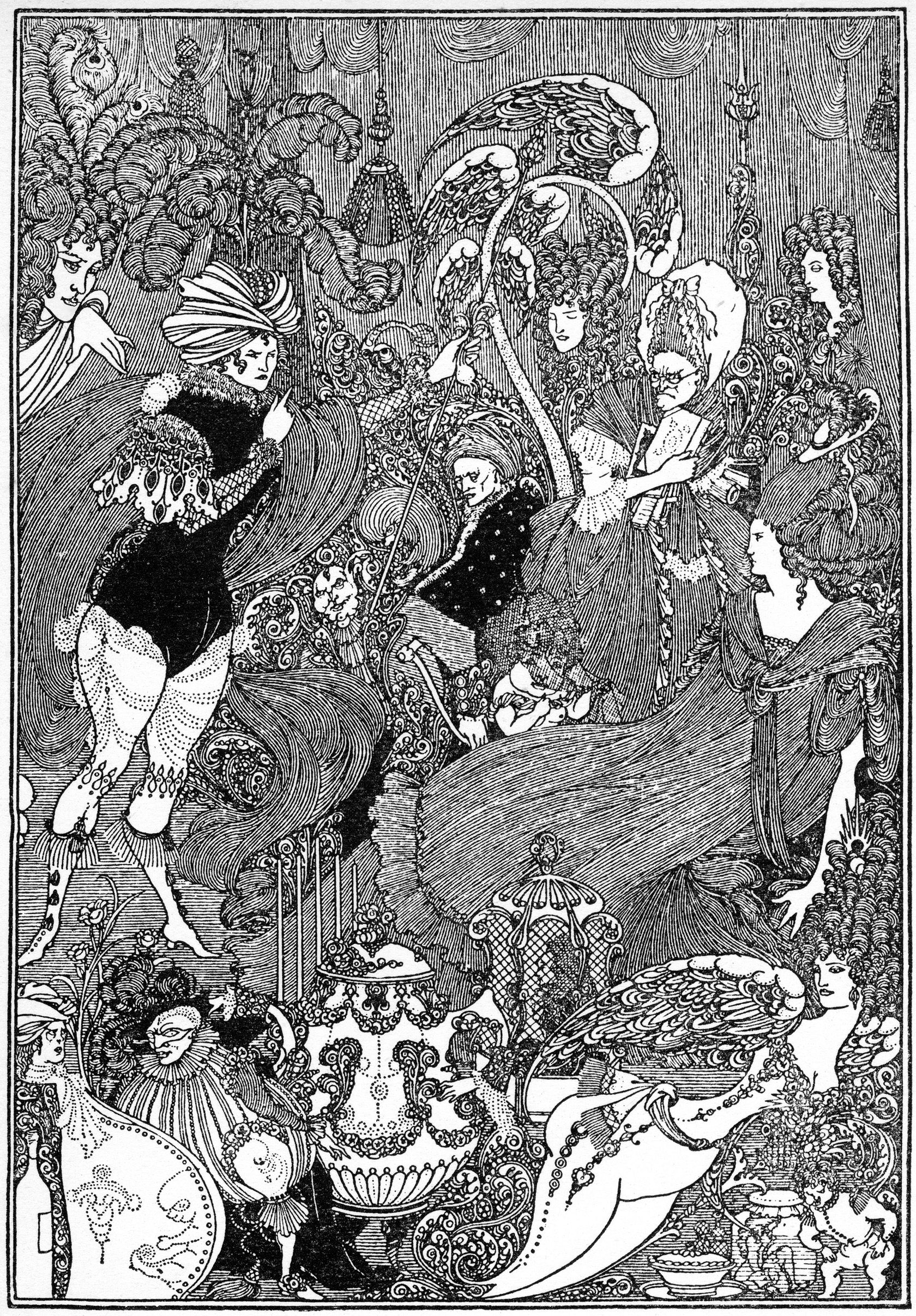 "The Cave of Spleen", illustration by Aubrey Beardsley for The Rape of the Lock (1896) by Alexander Pope